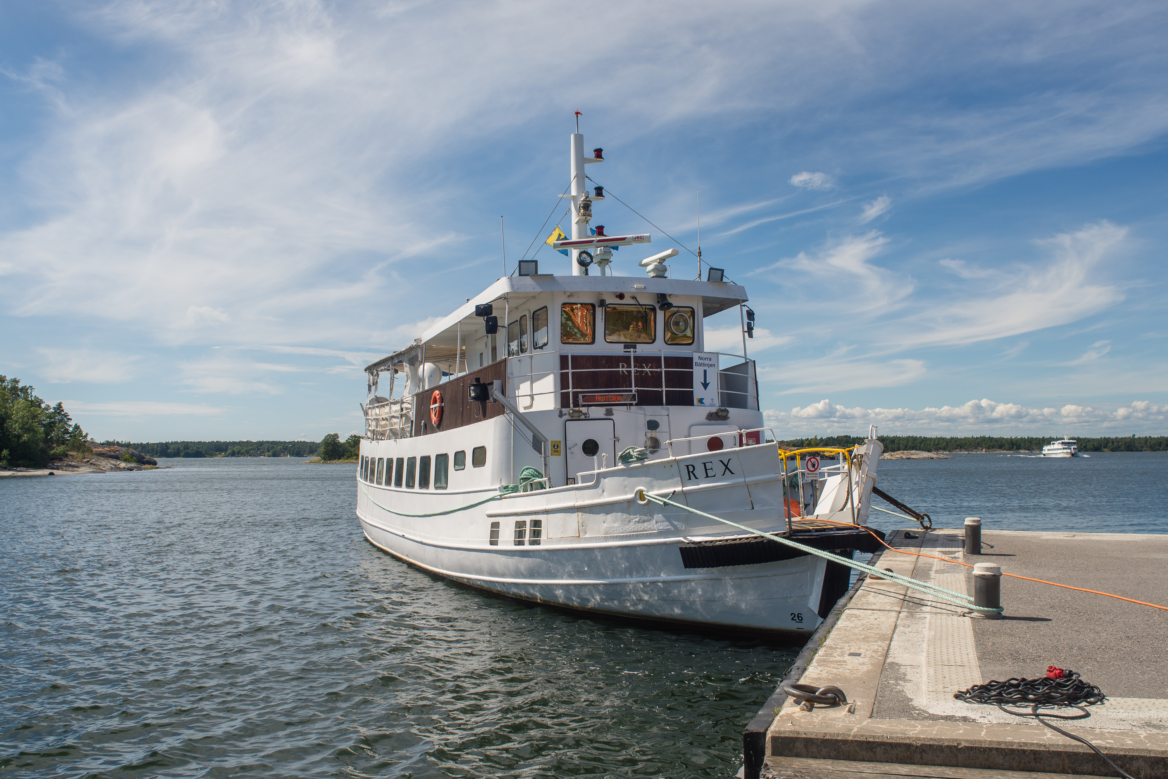 Rex in Arholma, Stockholms archipelago.